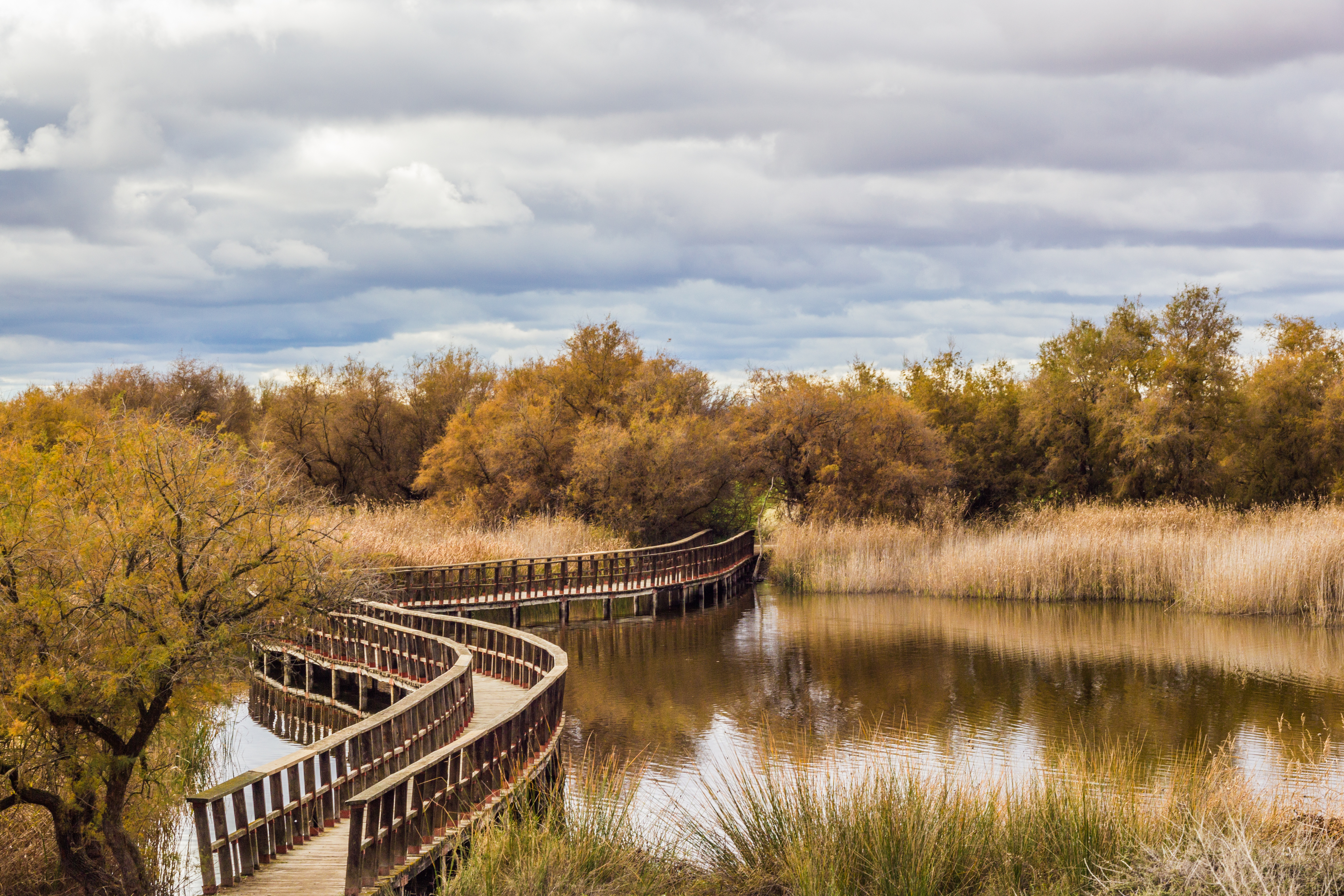 Bridge in Tablas de Daimiel National Park, province of Ciudad Real, Spain. This is a photography of a Special Area of Conservation in Spain with the ID: ES0000013. Natura2000 entry, EEA entry